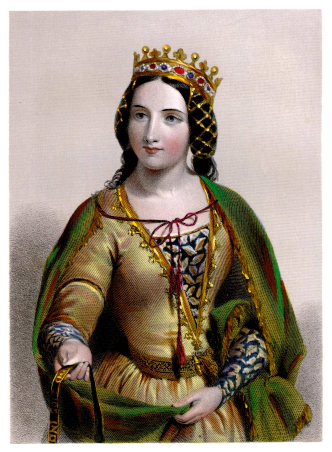 Anna Neville, Queen of England